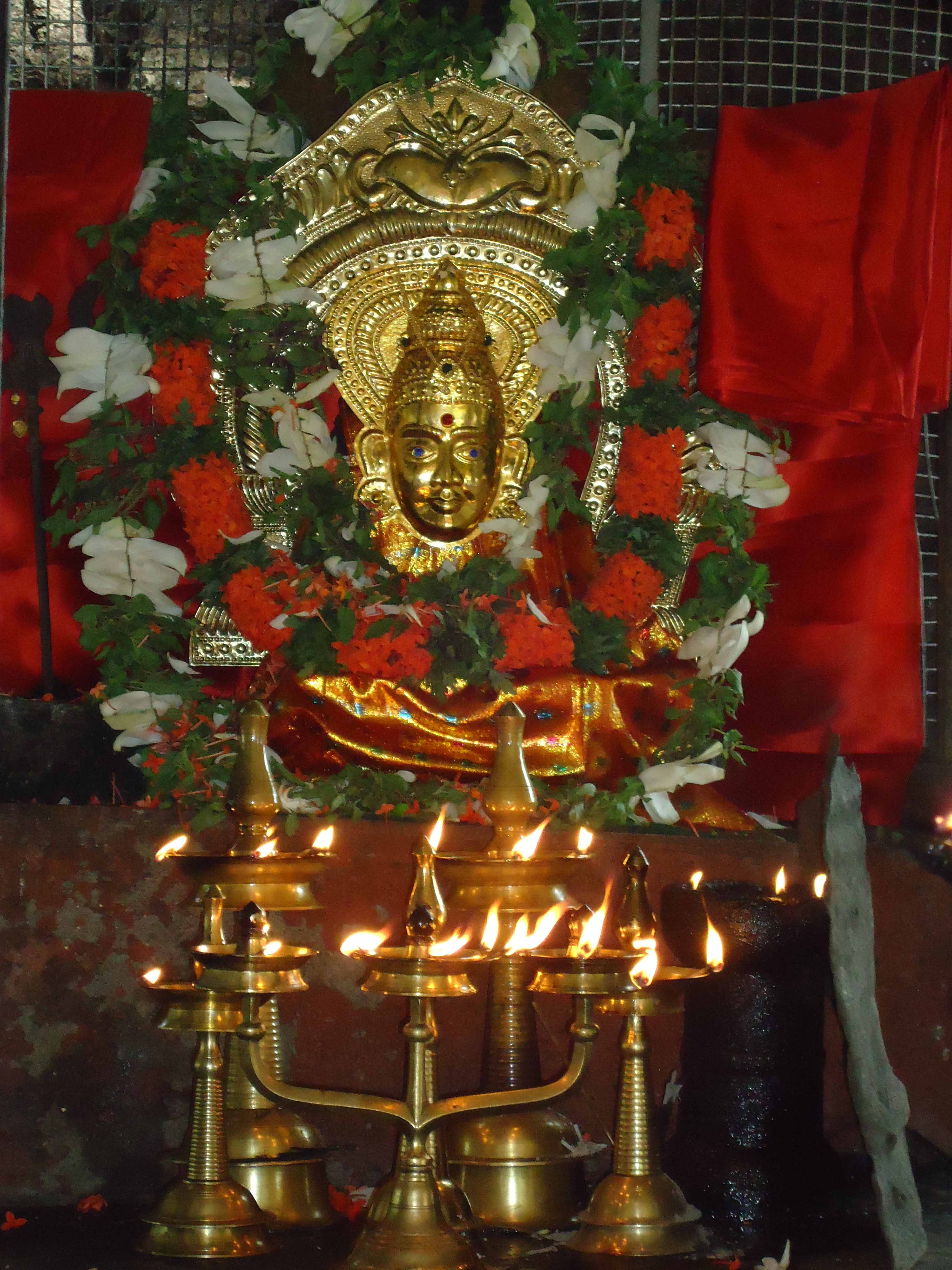 Kutappaara Devi